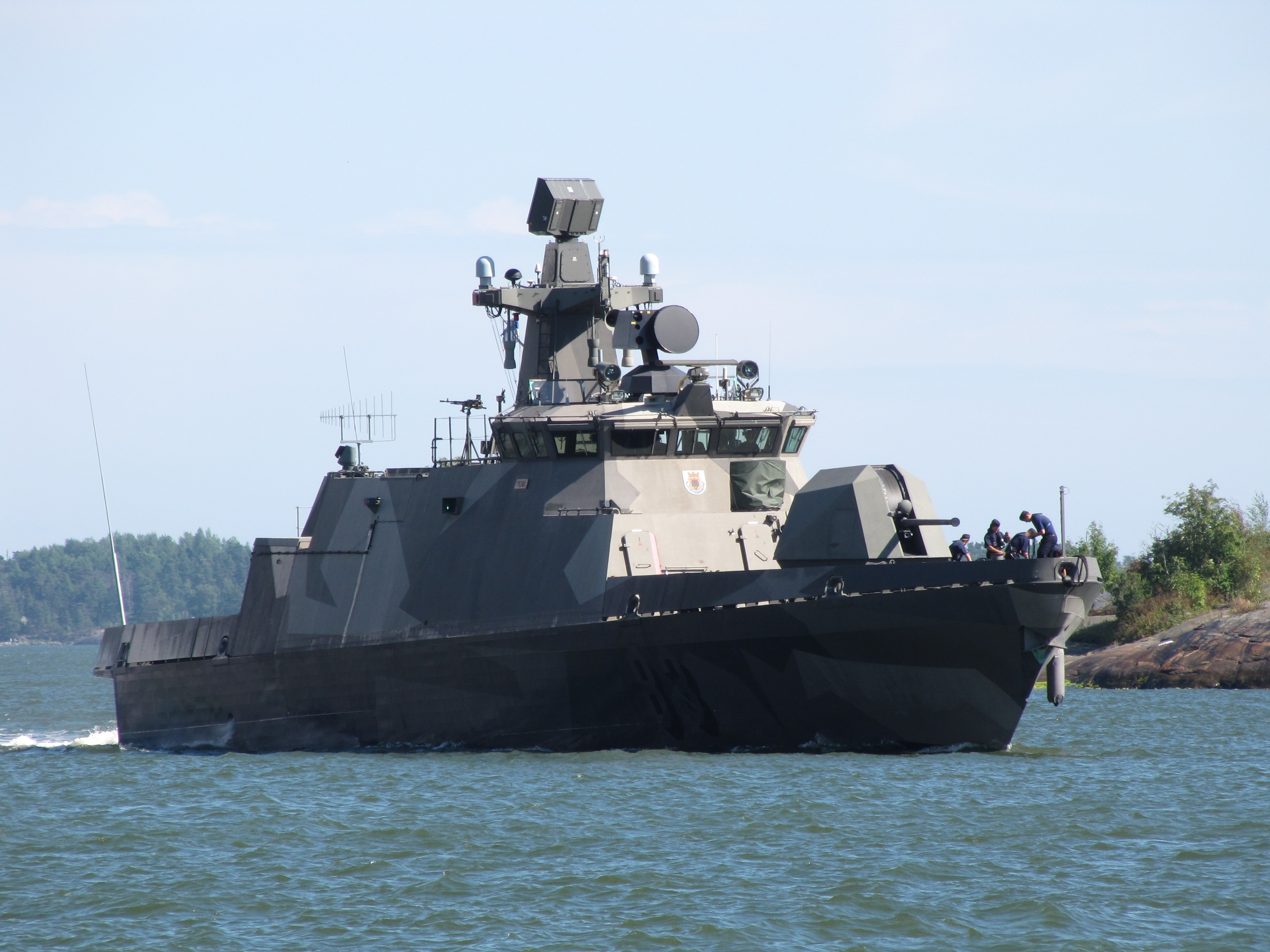 Finnish missile boat Pori (83), the fourth ship of Hamina class missile boats, in South Harbor of Helsinki.